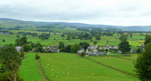 View of Chelmorton Townend Showing the parallel fields of un-enclosed land. The landscape around Chelmorton is of historic importance in that evidence of medieval pre enclosure or strip farming has been preserved. Cultivation took place in usually huge open fields surrounding a village and each villager owned a number of strips in each field. This open field system meant that every operation must be conducted in common by all villagers, and no one could produce crops at a different time or that which required different treatment from its neighbours. Changes in agricultural practices from the 16th century onwards led to the disappearance of the open system and increased prosperity changed the mediaeval village beyond recognition. Except at Chelmorton, where the land was considered of such a poor quality, that enclosure was not considered worthwhile and so the field pattern has remained untouched.